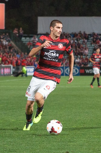 La Rocca in action 2013-14 season for Western Sydney Wanderers